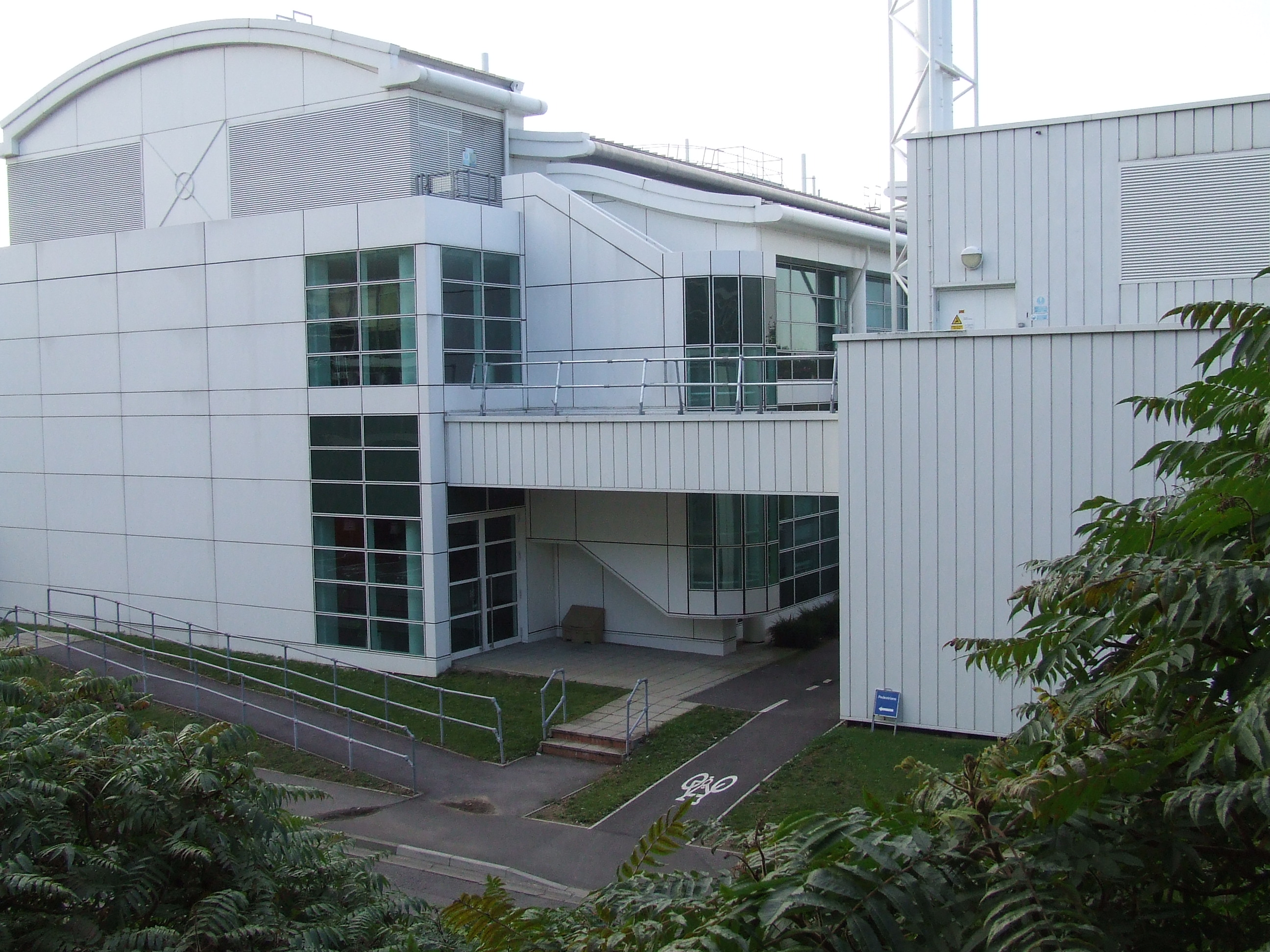 Module 1 of NPL's new building taken from the footbridge.